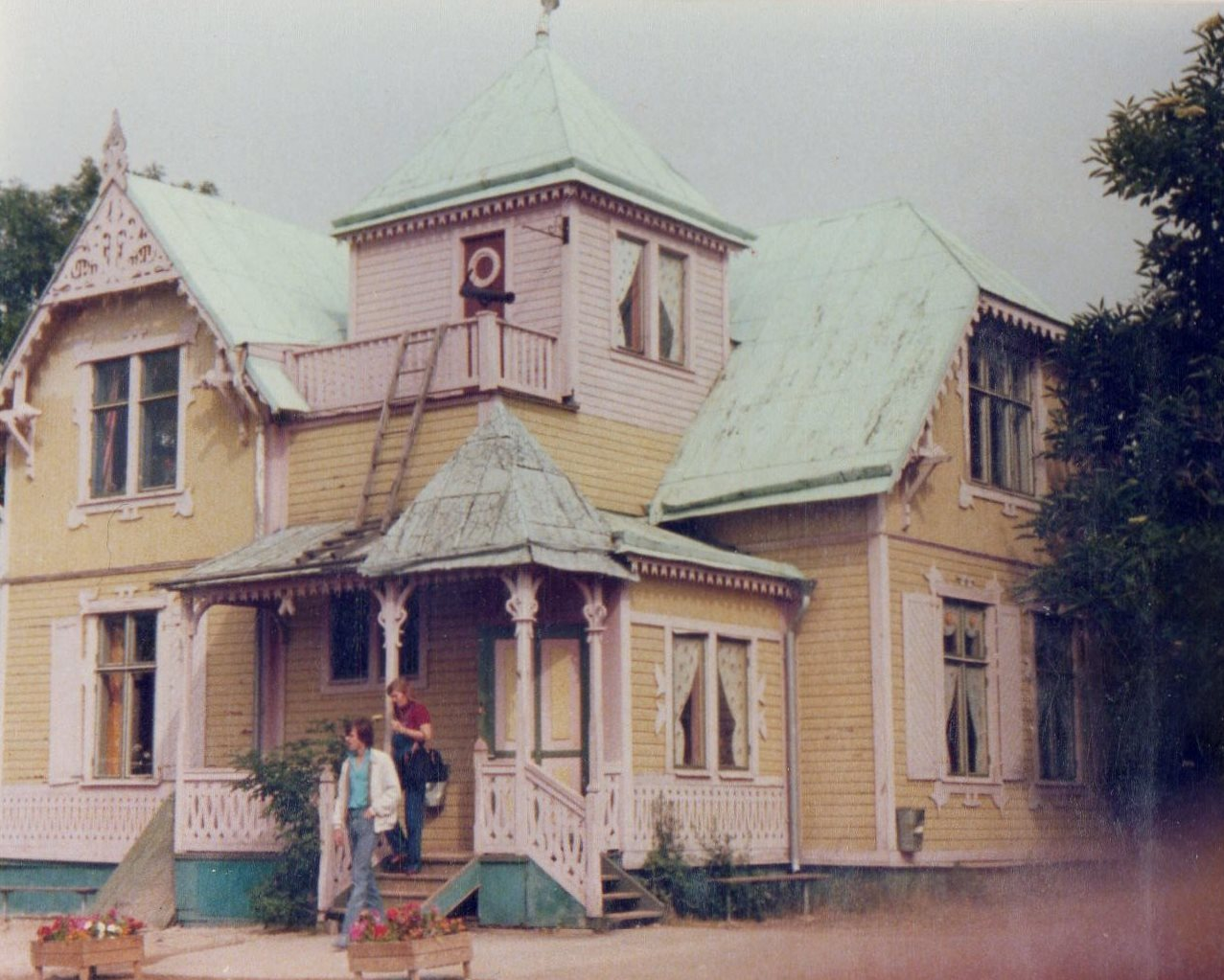 The orginial Villa Villekulla house from the fims and tv-series about Pippi Longstocking.